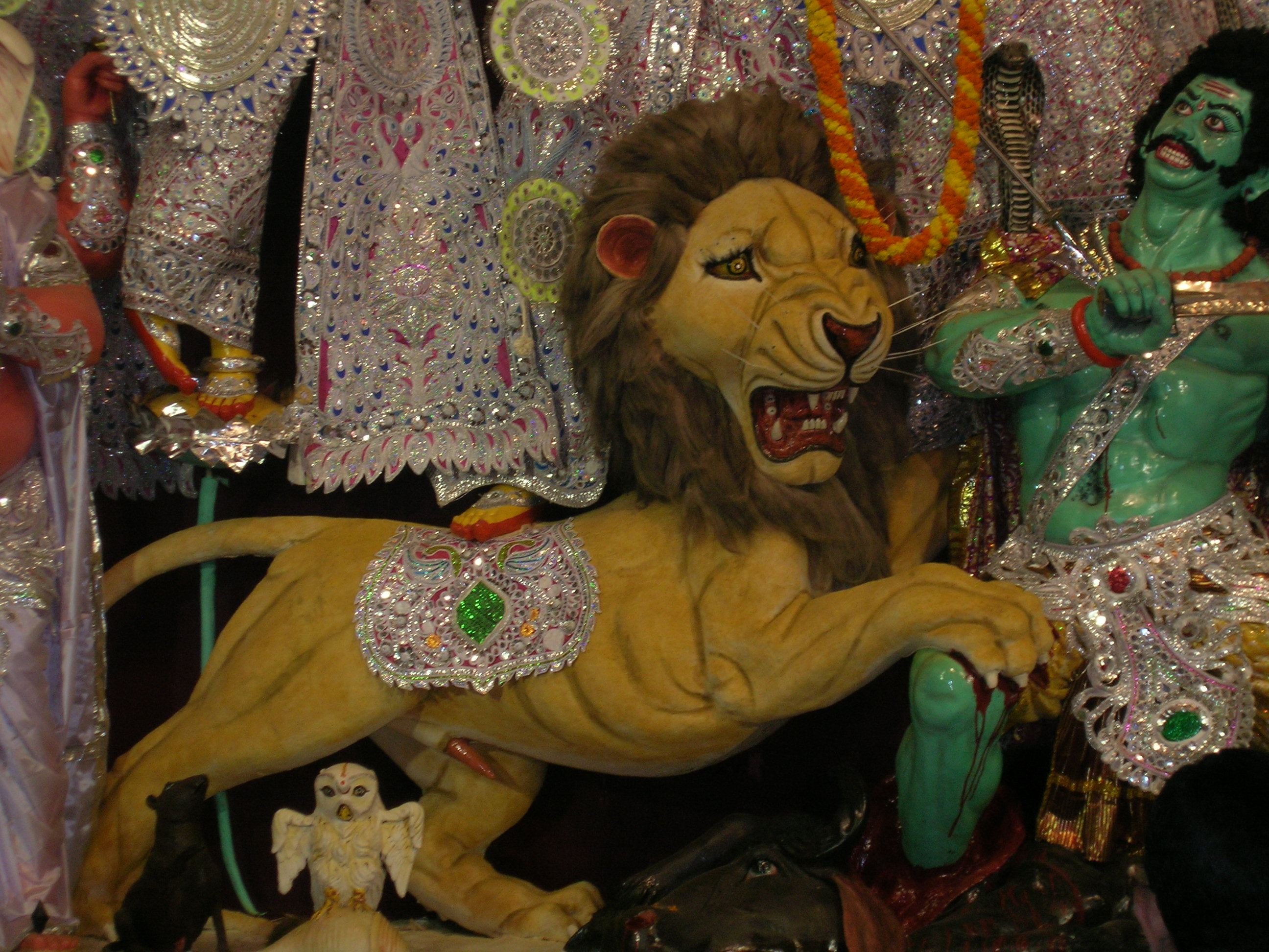 Great Lion at Bagbazar Sarbojanin, North Kolkata, 2010.